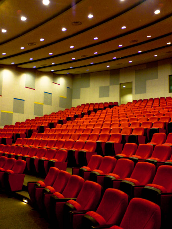 Millennia Institute Bukit Batok West Avenue 8 Auditorium 29 December 2006 Photographed by User:Slivester